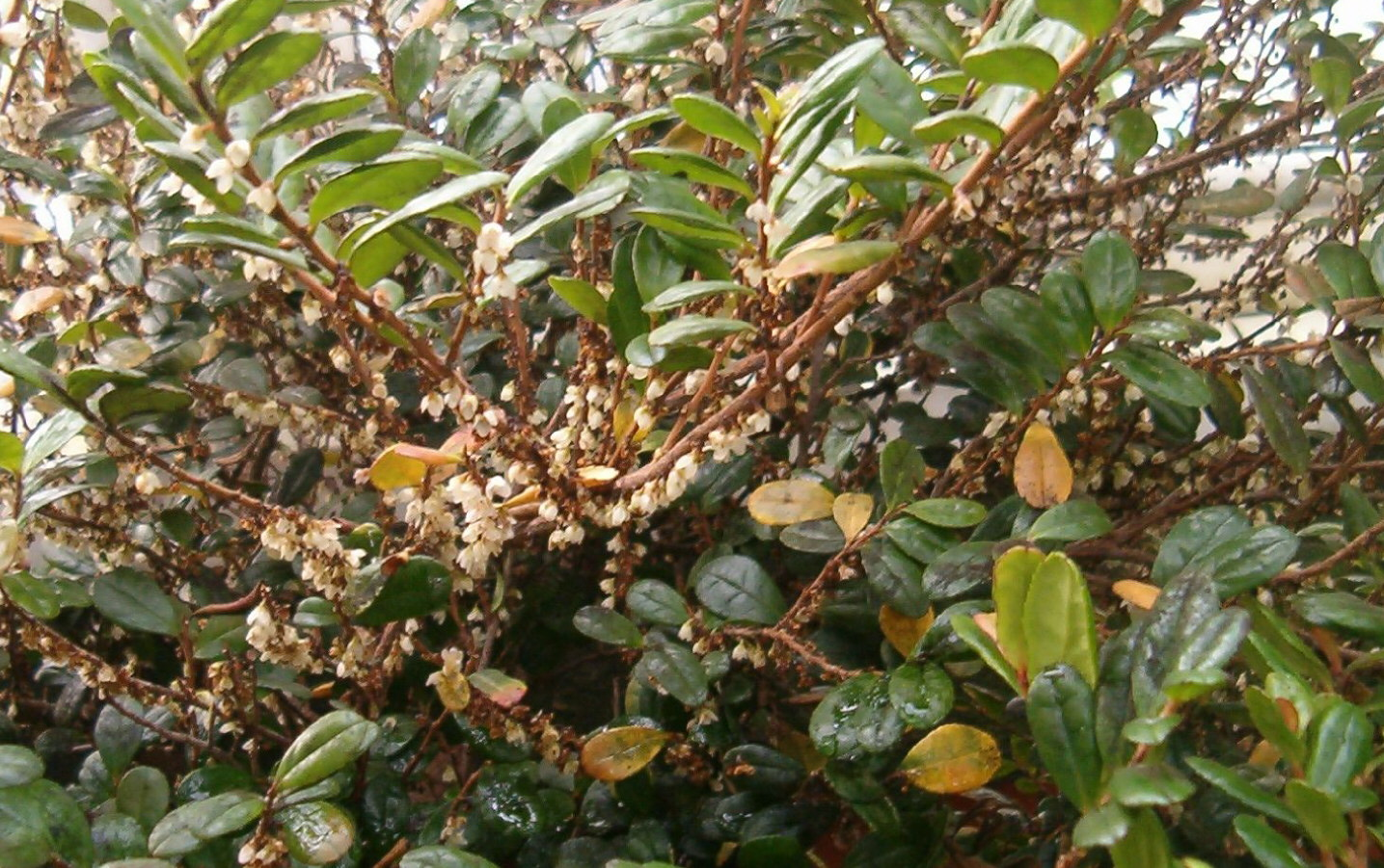 Location: Botanical Gardens Berlin Dahlem